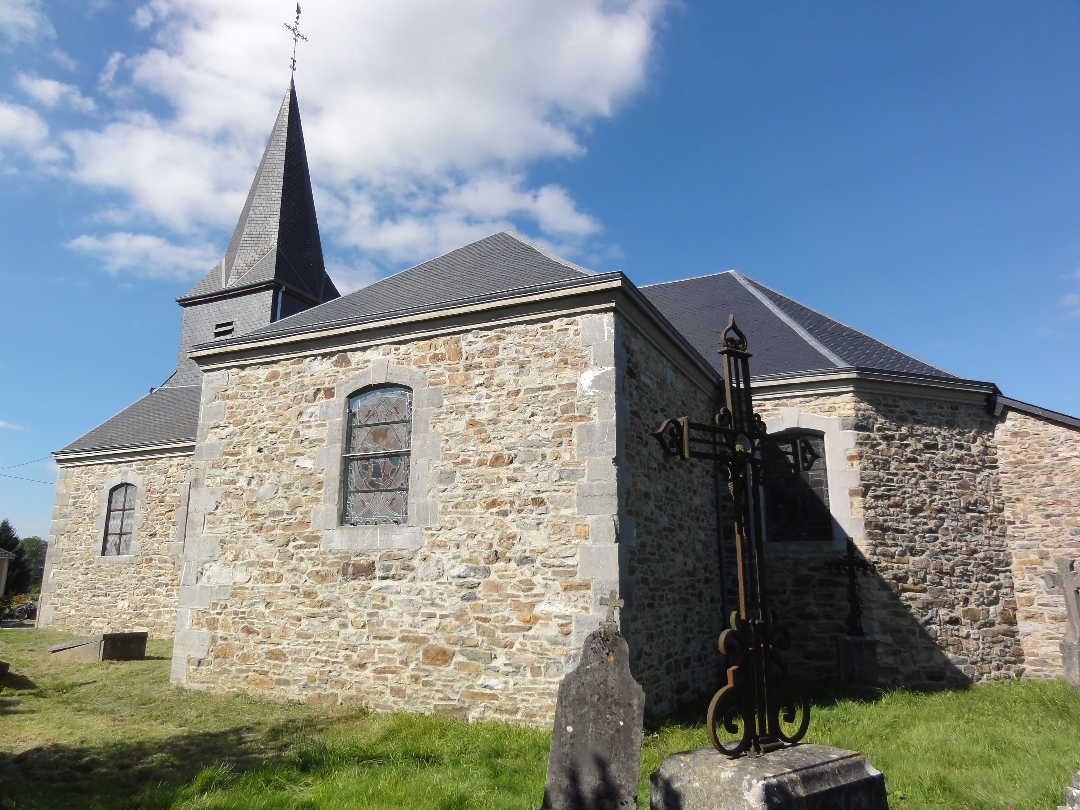 Sévigny-la-Forêt (Ardennes) église vue du cimetière